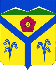 Coat of arms of Upornaya, Labinsk Raion, Krasnodar Krai, Russia.